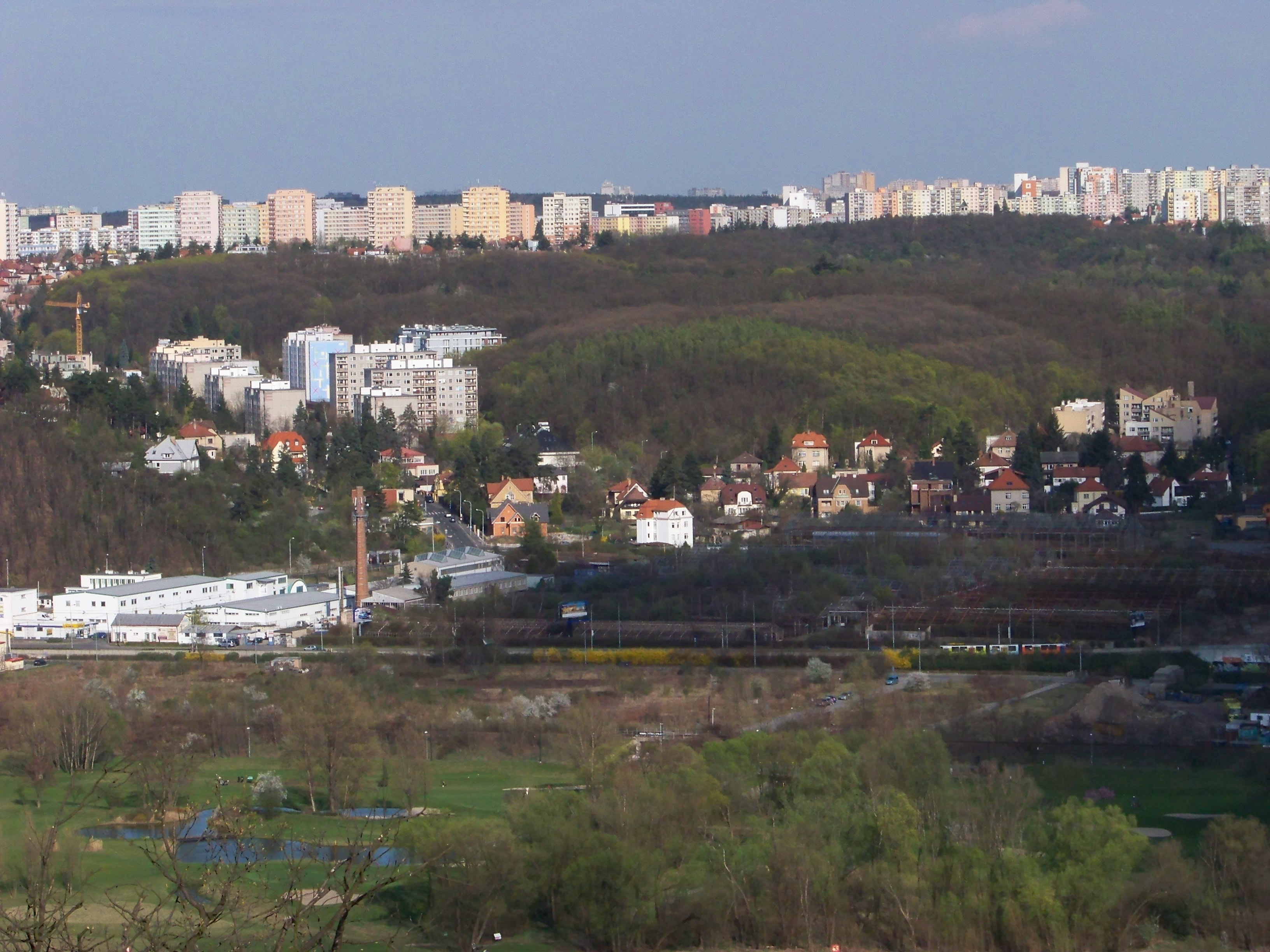 Prague, the Czech Republic. A view of Hodkovičky from Saint John of Nepomuk Church in Chuchle Forest.